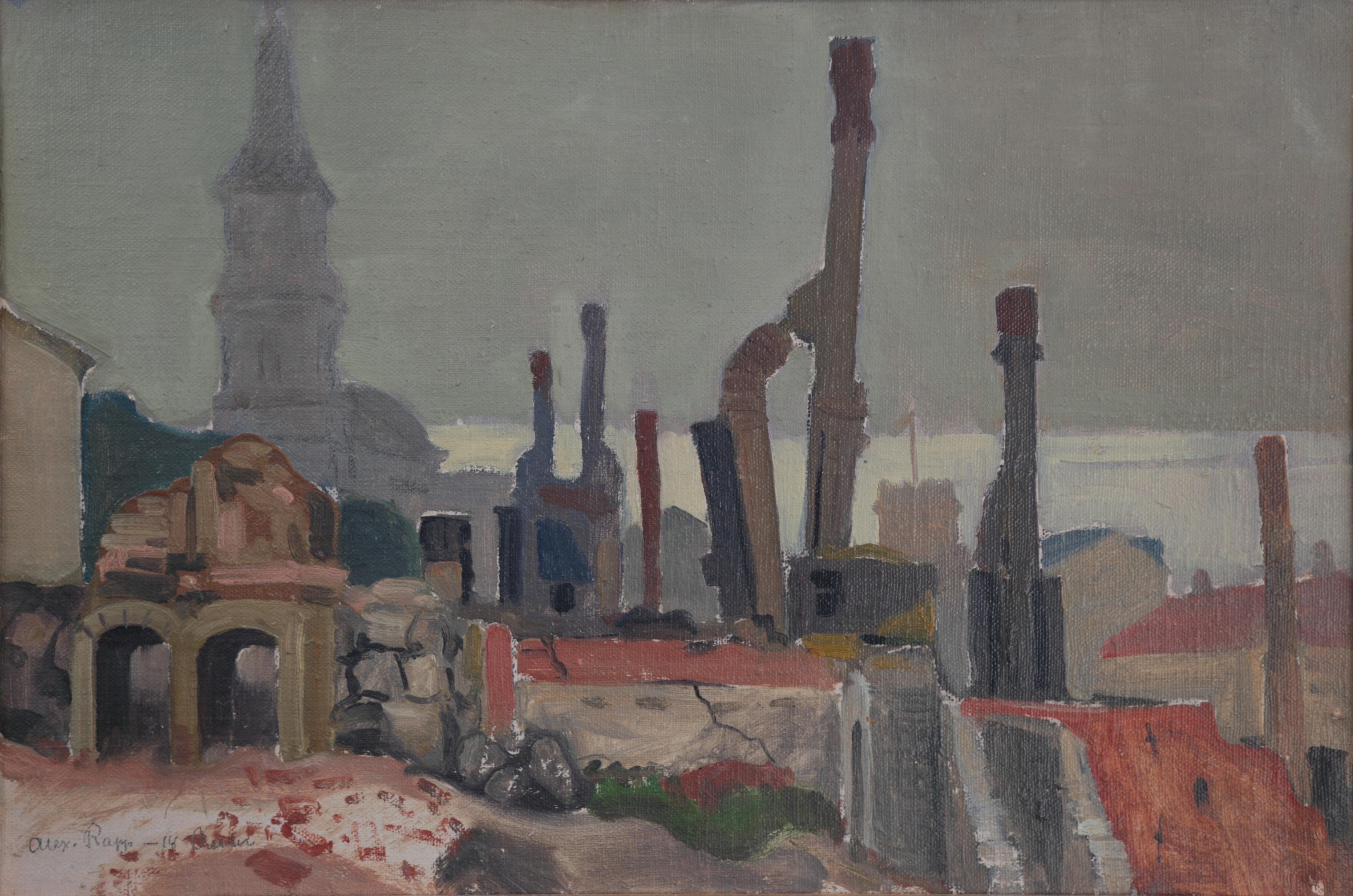 Ruins of the city block destroyed in the battle of Oulu of the Finnish Civil War.